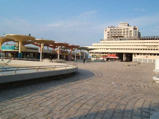 Kikar Atarim